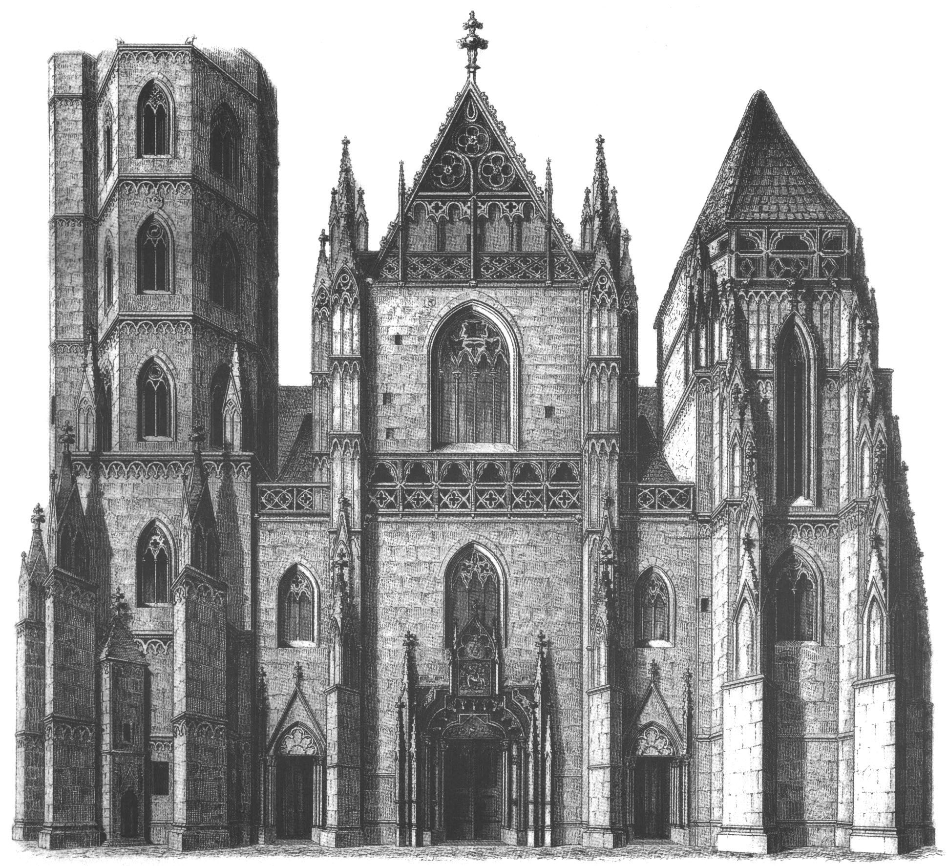 Western facade of the St.Eliazabeth Cathedral, Kosice, Slovakia. Reconstruction by I. Henszlmann, engrave by Fuchsthaller